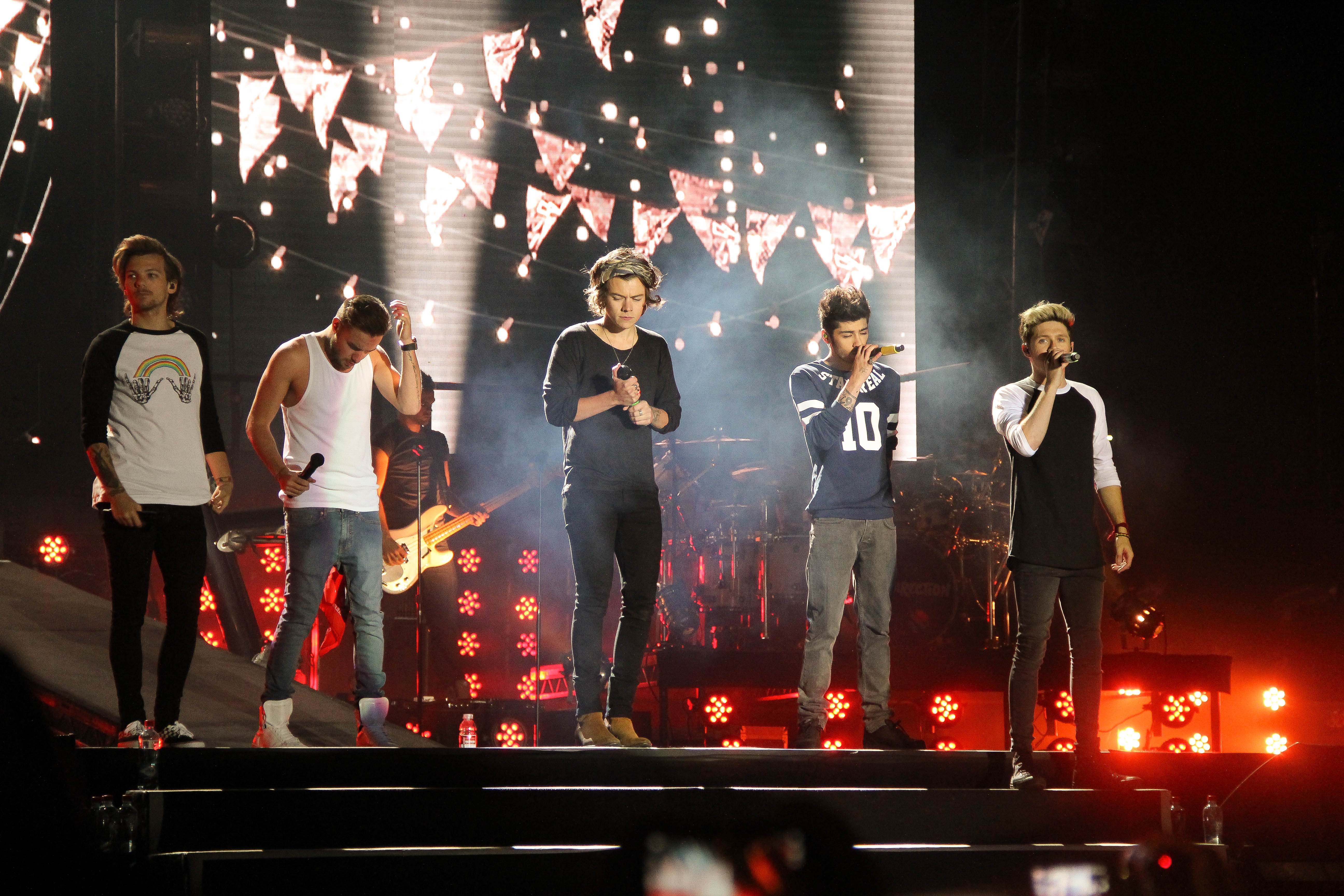 One Direction in concert (WWAT 2014) - Chile